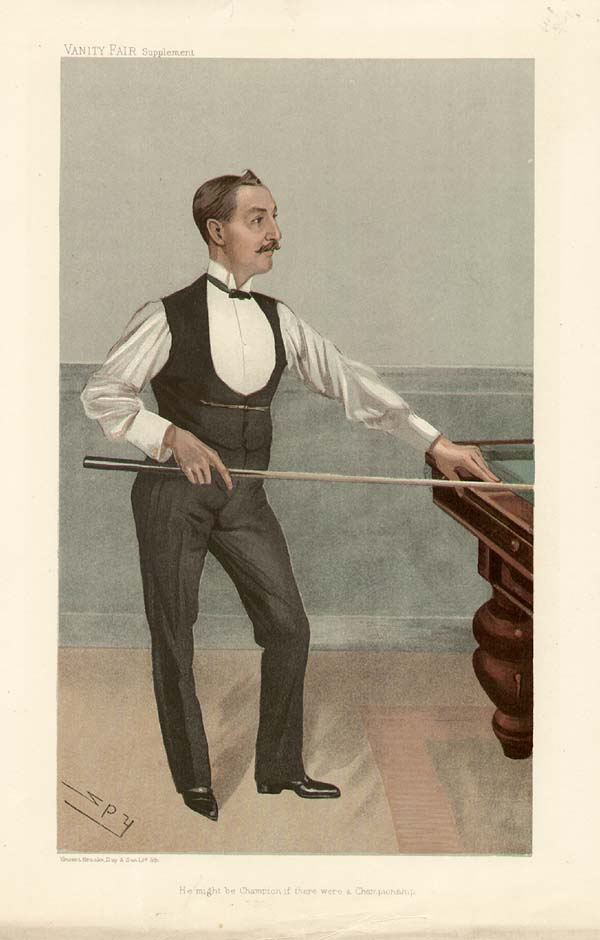 Men of the Day No.965: Caricature of Harry W Stevenson. Caption reads: "He might be champion if there were a Championship"